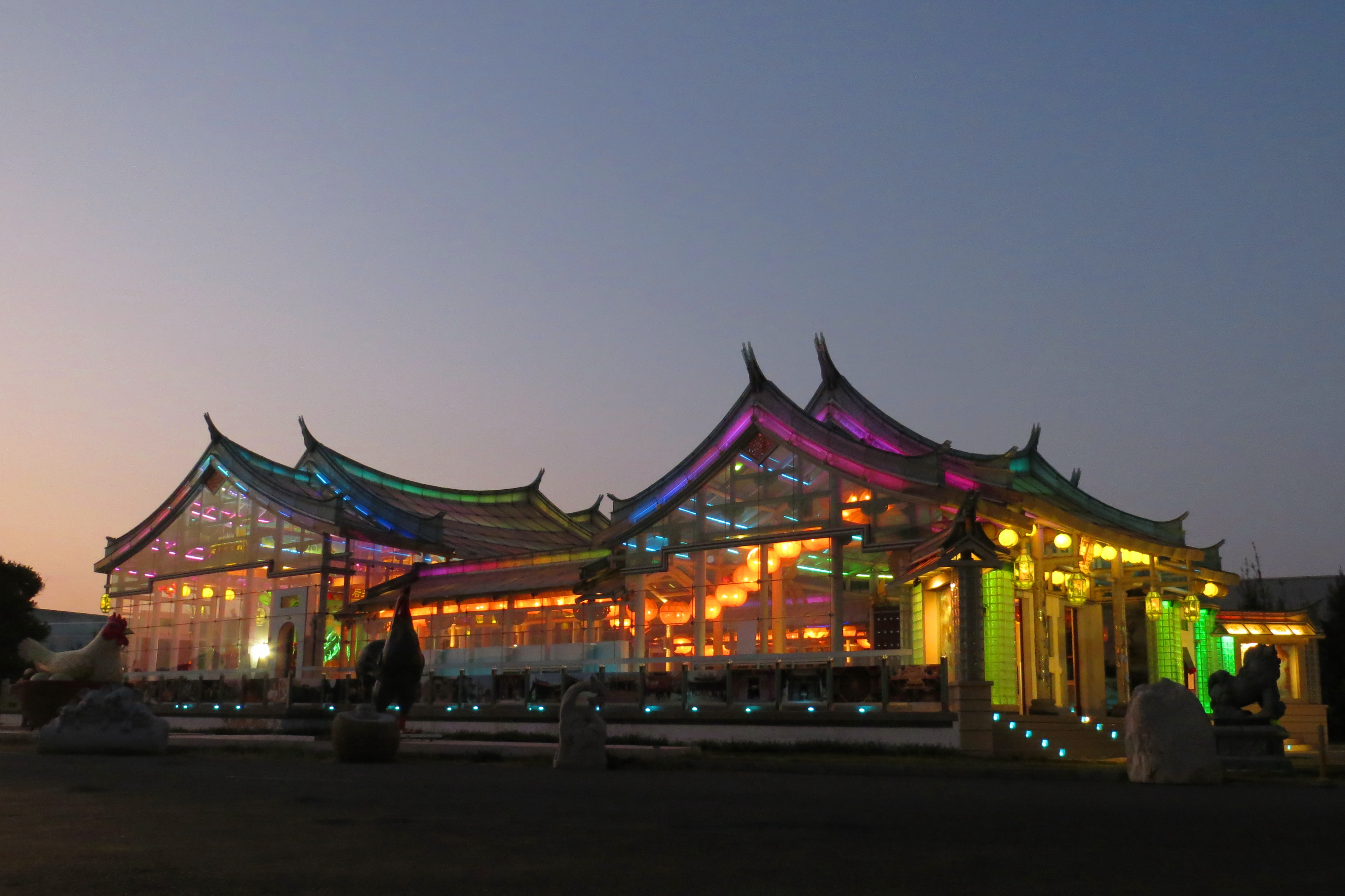 Mazu Temple in Taiwan Glass Gallery, Changhua County, Taiwan.